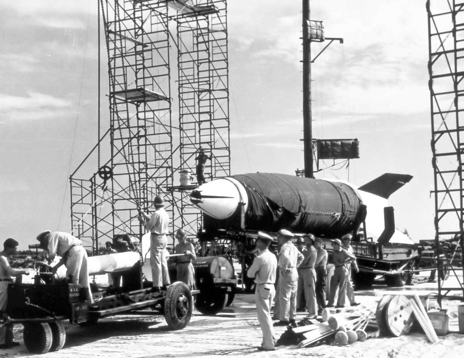 A "Bumper" V-2 rocket on its transporter being readied for launch in July 1950 at the U.S. Air Force's Long Range Proving Ground at Cape Canaveral, Florida. The Bumper's WAC Corporal upper stage is on a trailer in the left foreground and is being prepared for attachment to the V-2's nose.